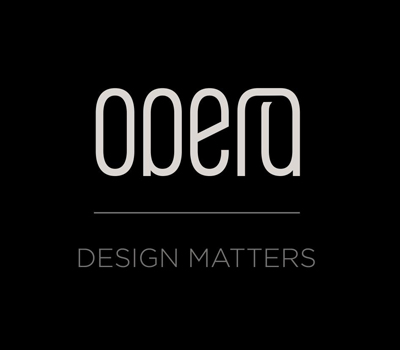 Logo for Opera Design Matters